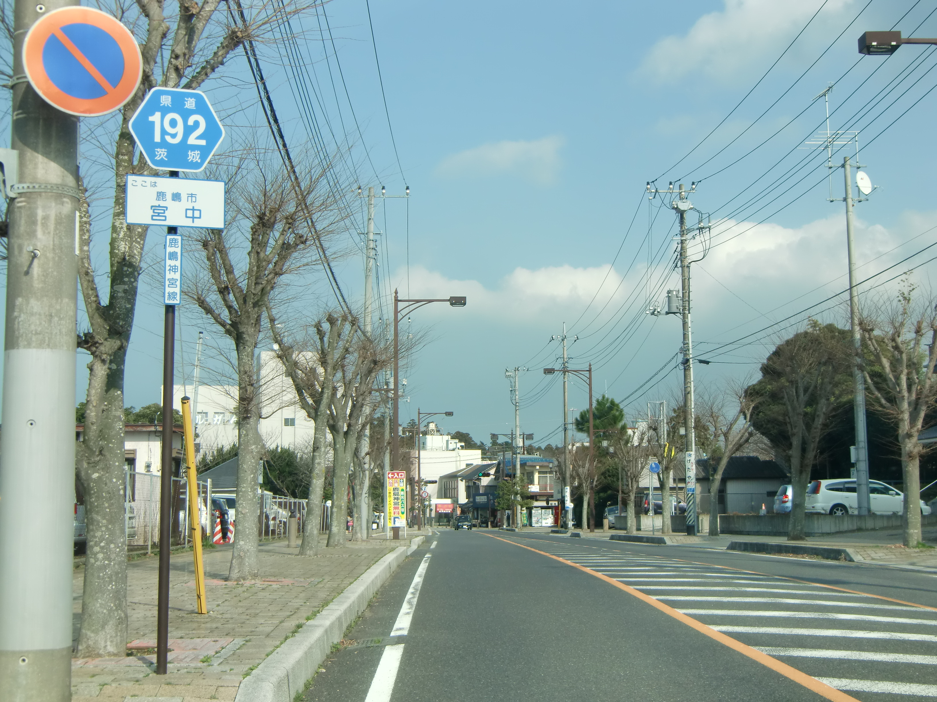 Ibaraki prefectural road 192 (Kashima-Jingū line) in Kyūchū, Kashima city, Ibaraki prefecture, Japan.